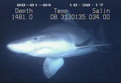 Smalltooth sand tiger (Odontaspis ferox) in the Gulf of Mexico